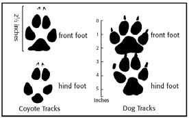 This media contains the comparison between coyote tracks to that of the domestic dog's tracks.